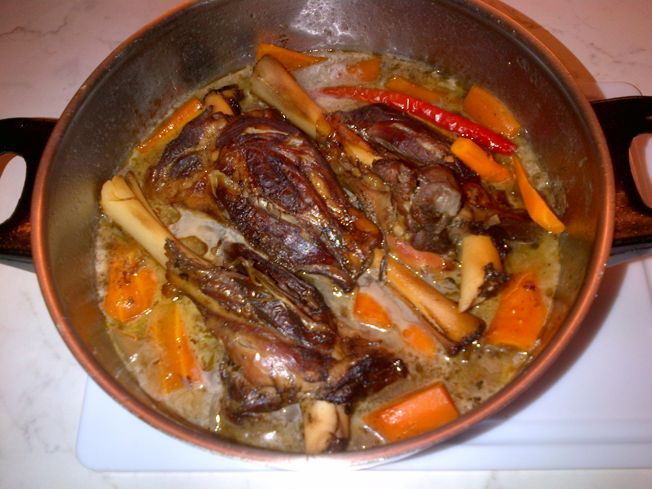 Lamb shanks in a pot of "Kuzu kapama" (Turkish cuisine lamb dish).